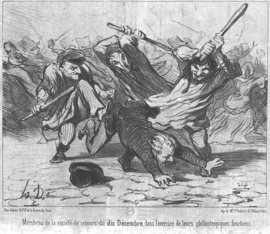 Published in Le Charivari, 1 October 1850.